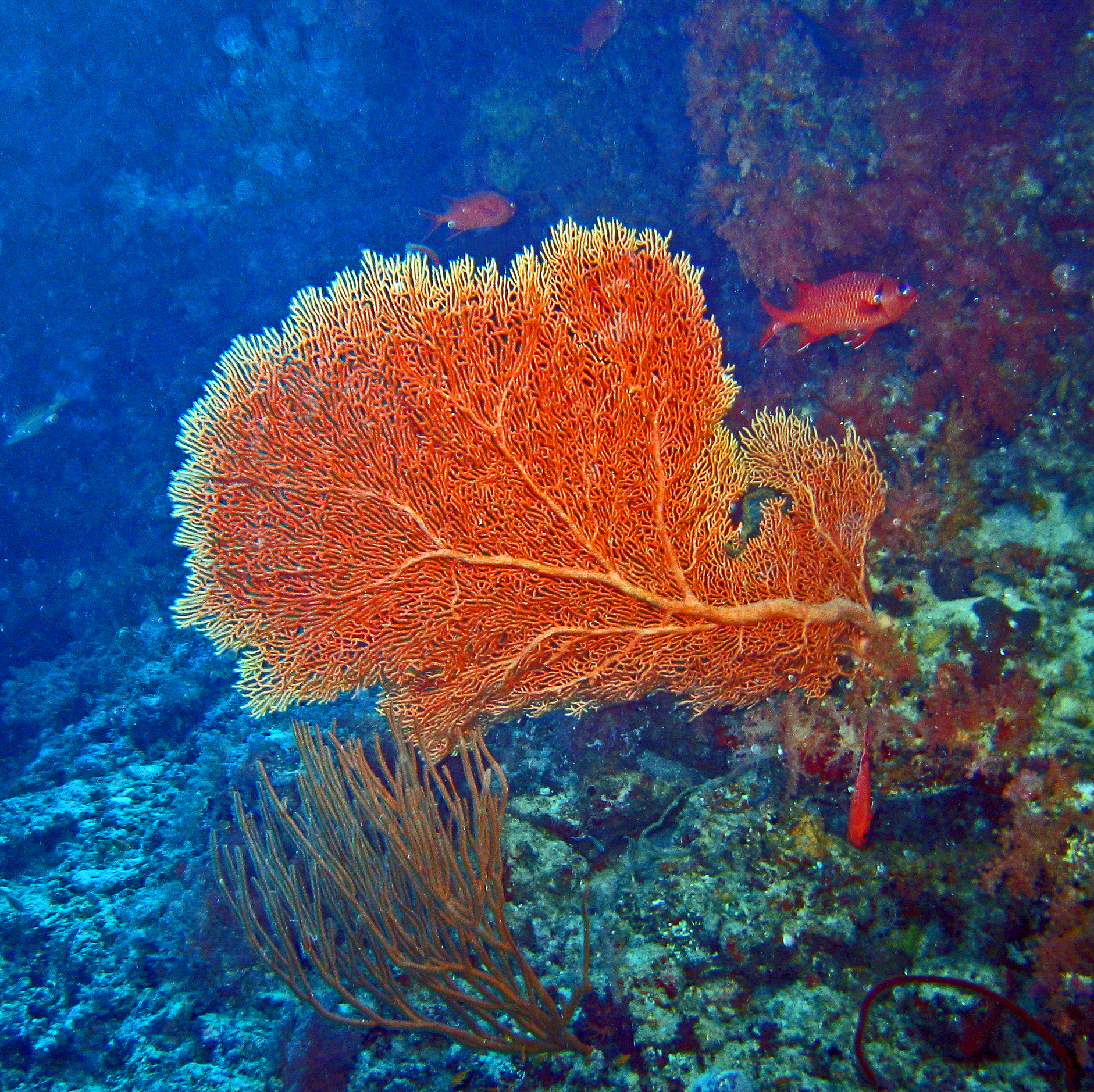 Annella mollis off Maldives